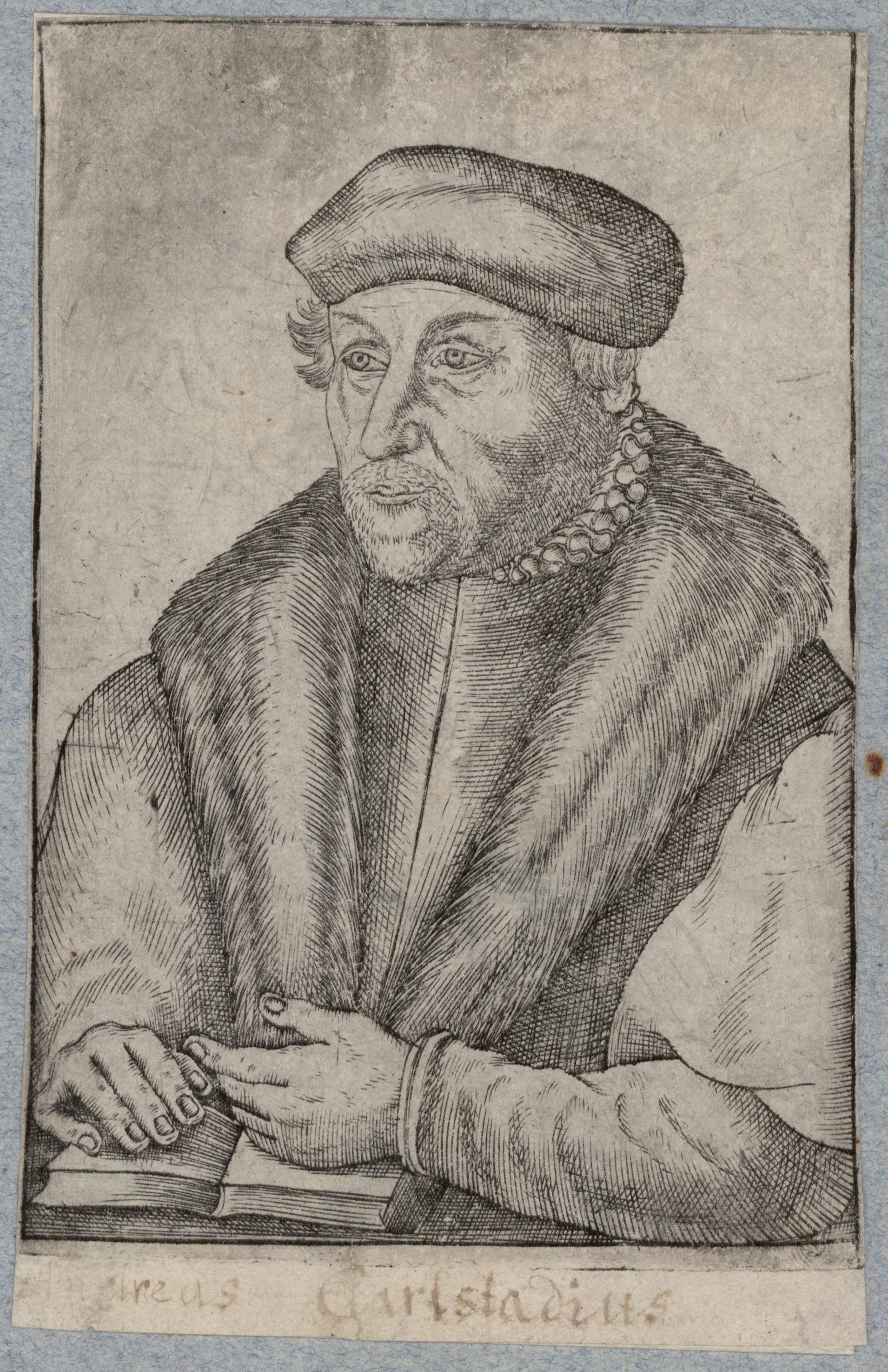 Portrait of Andreas Bodenstein, called Karlstadt († 1541), copperplate; caption: «Andreas Carlstadius»